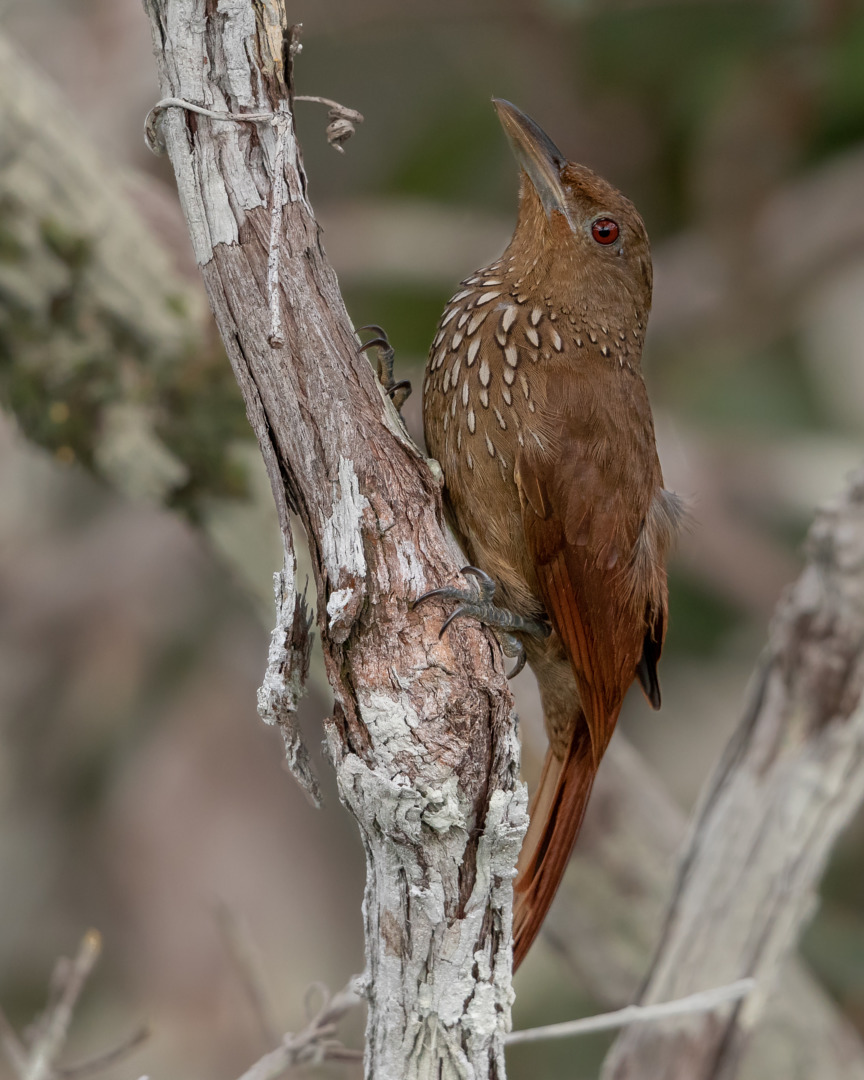 Cinnamon-throated Woodcreeper; Manaus, Amazonas, Brazil